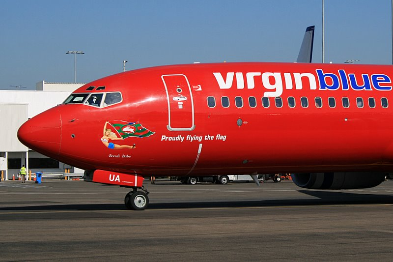 Close up of the nose of Virgin Blue Airlines Boeing 737 VH-VUA, with South Sydney Rabbitohs flag